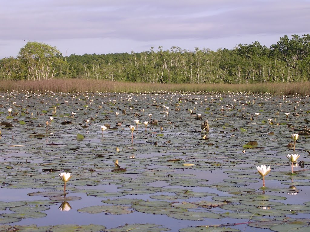 Waterlilies on the extensive freshwater wetland of Lake Modo Mahut, Welaluhu, Manufahi